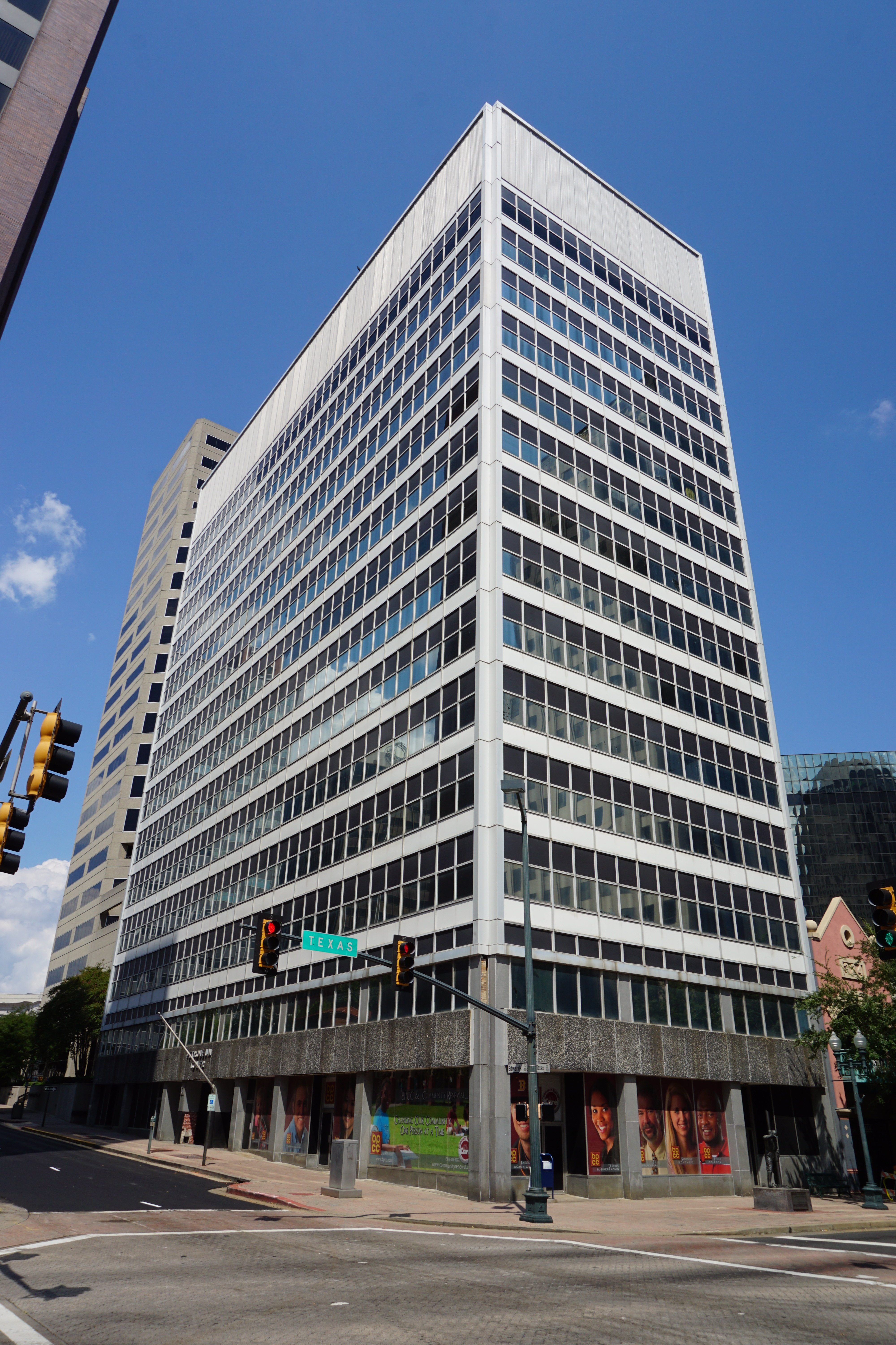 The Petroleum Tower in Shreveport, Louisiana (United States).